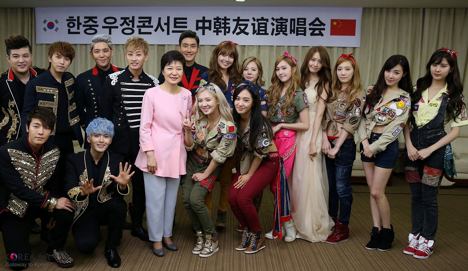 President Park Geun-hye’s state visit to China Photo=Cheong Wa Dae (Related Article) Presidential visit opens new era in Korea-China ties Presidential trip to reshape future vision of Seoul-Beijing ties President Park holds 1st Korea-China summit in Beijing 박근혜 대통령 중국 국빈방문 사진=청와대 韩国总统朴槿惠 将对中国进行国事访问 韩国总统朴槿惠访华 打开中韩未来新篇章 朴槿惠同中国国家主席习近平举行首次首脑会谈 韩总统朴槿惠访华 为韩中关系设定新的未来愿景